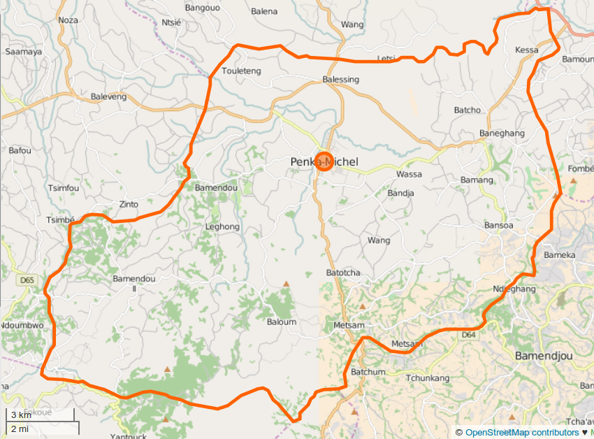 OSM map of Penka-Michel, Cameroon ː commune boundaries. This map may be incomplete, and may contain errors. Don't rely solely on it for navigation.